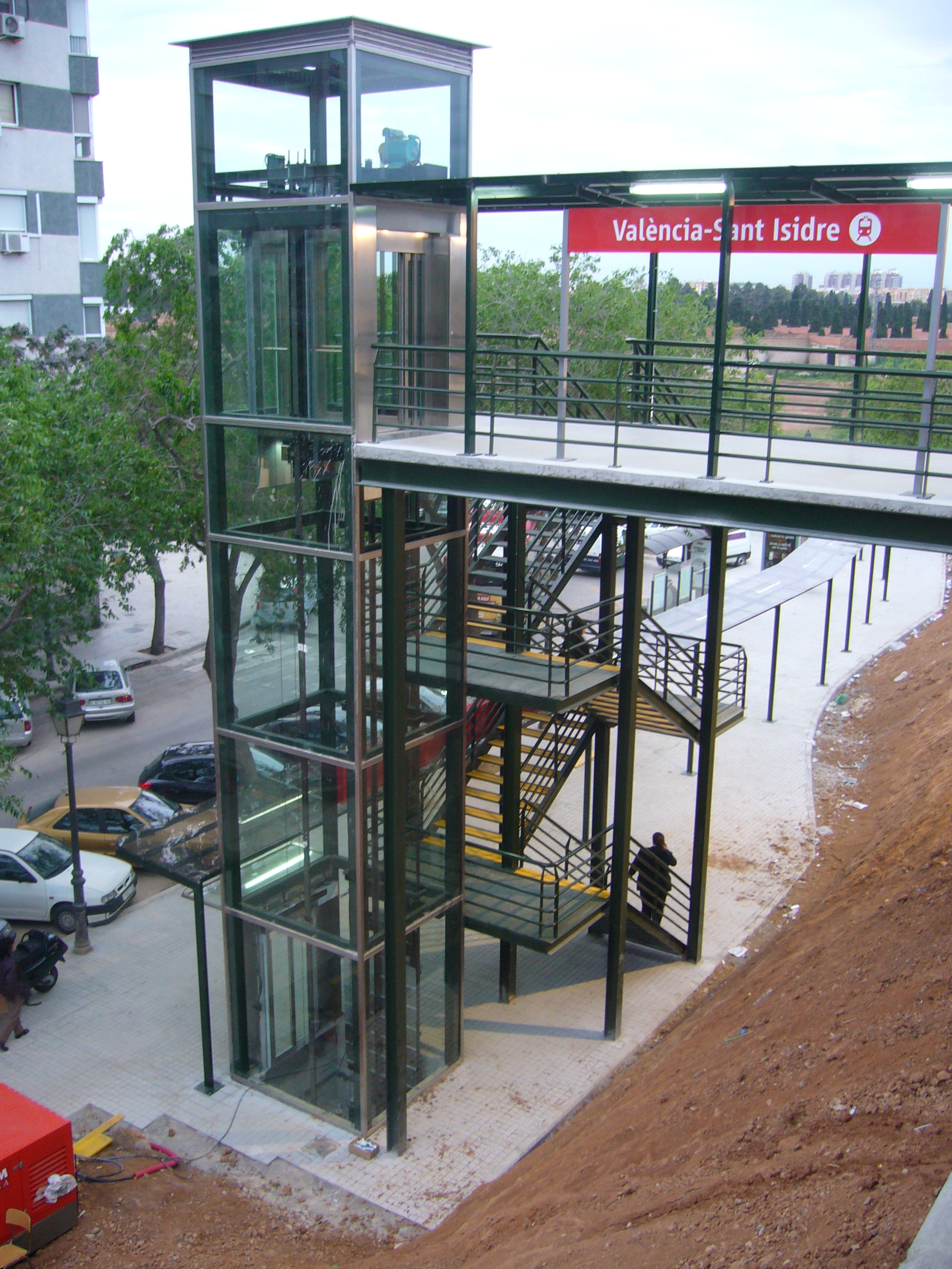 Sant Isidre Station